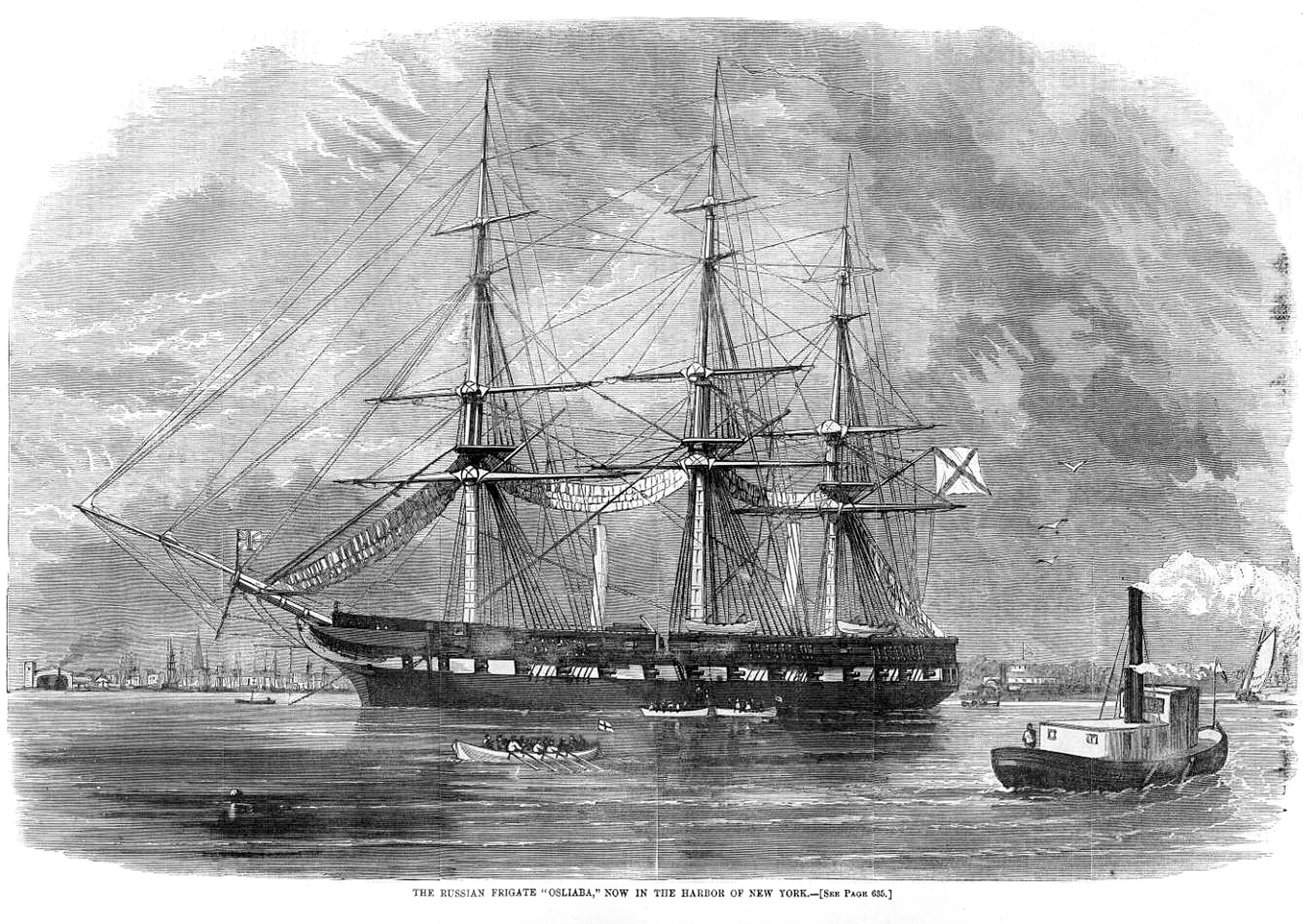 The Russian frigate 'Osliaba', now in the harbor of New York. Harpers Weekly, 1863